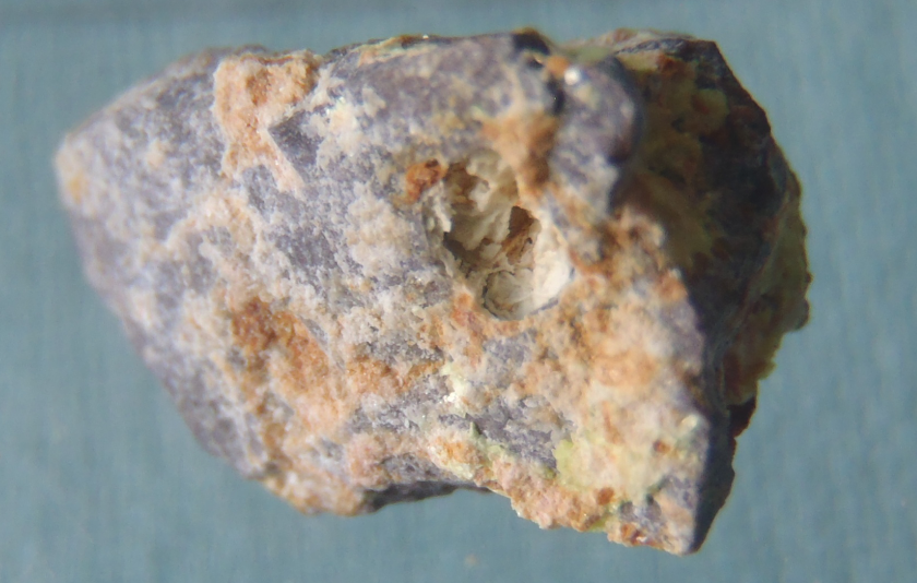 White eylettersite (in the cavity), with brown to amber mundite and greenish threadgoldite; bought from prof. van Wambeke who discovered the mineral and named it after his wife, Lea Eyletters. Collection and photo Erik Vercammen. Locality: Kobokobo pegmatite, Mwenga, Sud-Kivu, Democratic Republic of the Congo SIze: 11mm x 5mm x 6mm